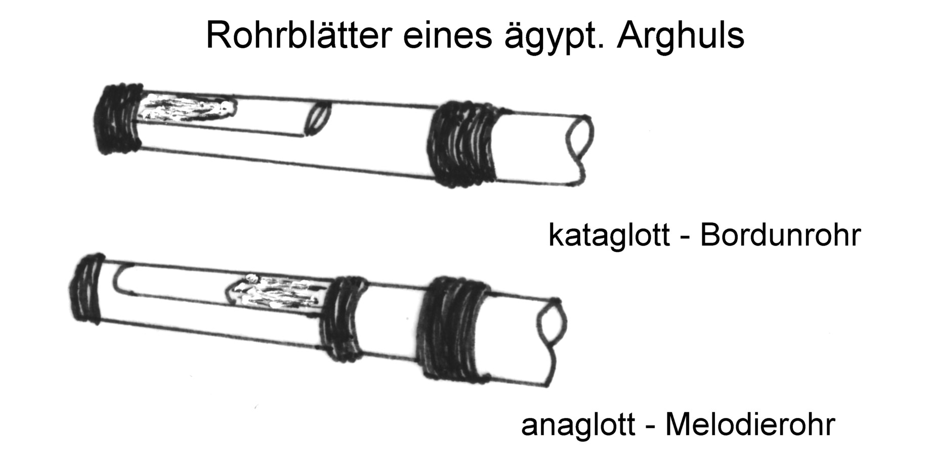 kataglott and anaglott reeds of an egyptian arghul (double reedpipe)